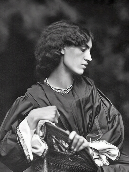 Jane Morris (née Jane Burden; 1839–1914), photographed by John Robert Parsons, 7 June 1865, posed by Dante Gabriel Rossetti, printed by Emery Walker Ltd.